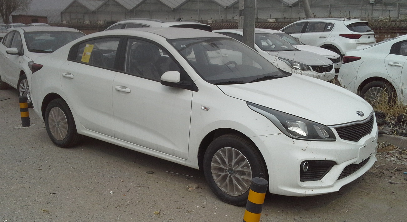 Kia K2 UC photographed in Beijing, China.